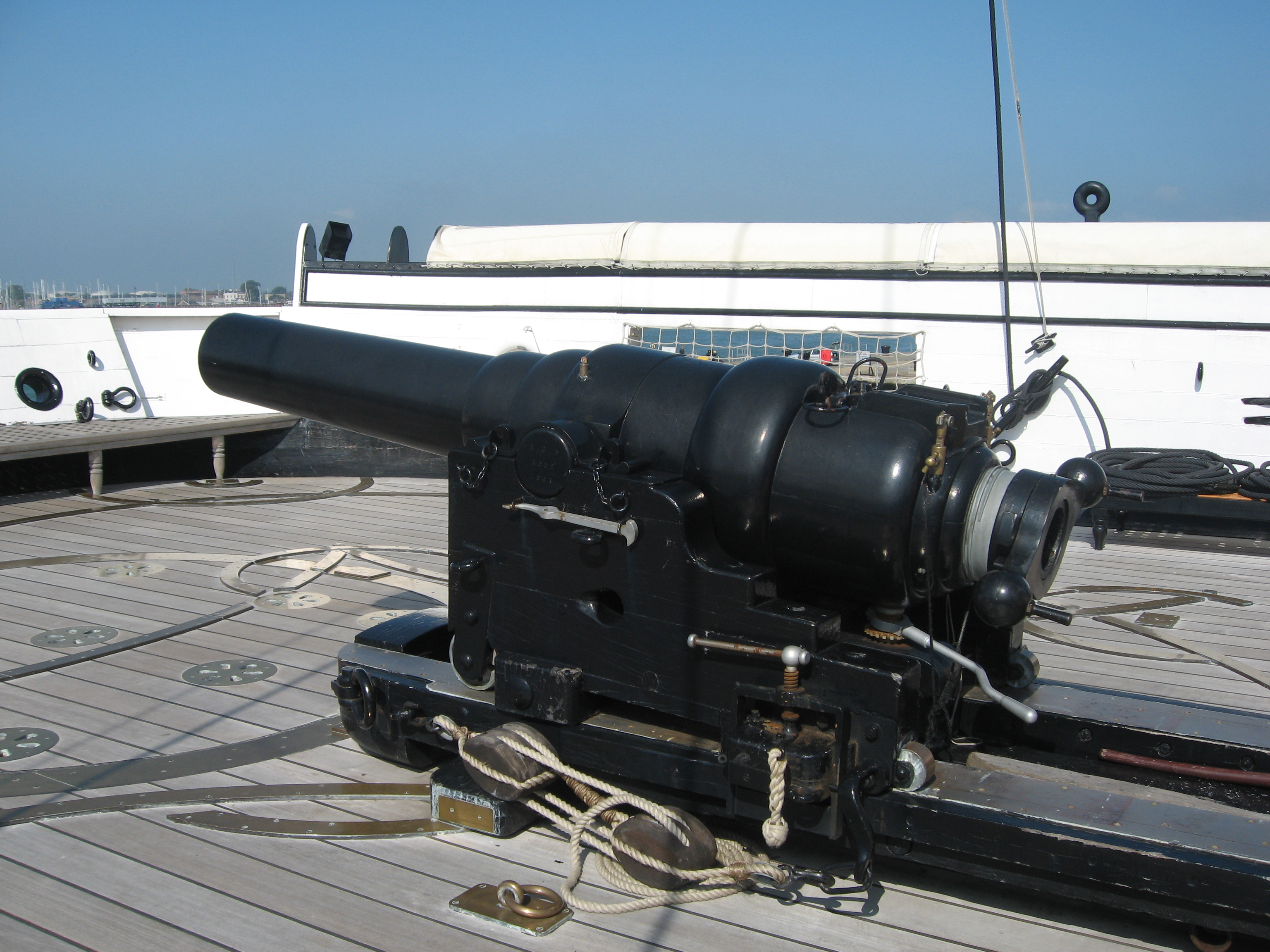 Photograph from left side of fibreglass replica of RBL 7 inch Armstrong gun on pivot mount, on the upper deck of HMS Warrior, apparently the stern.